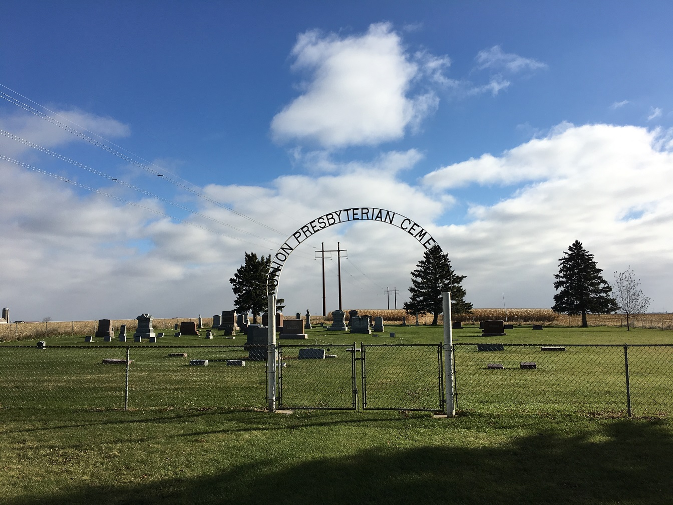 Union Presbyterian Church